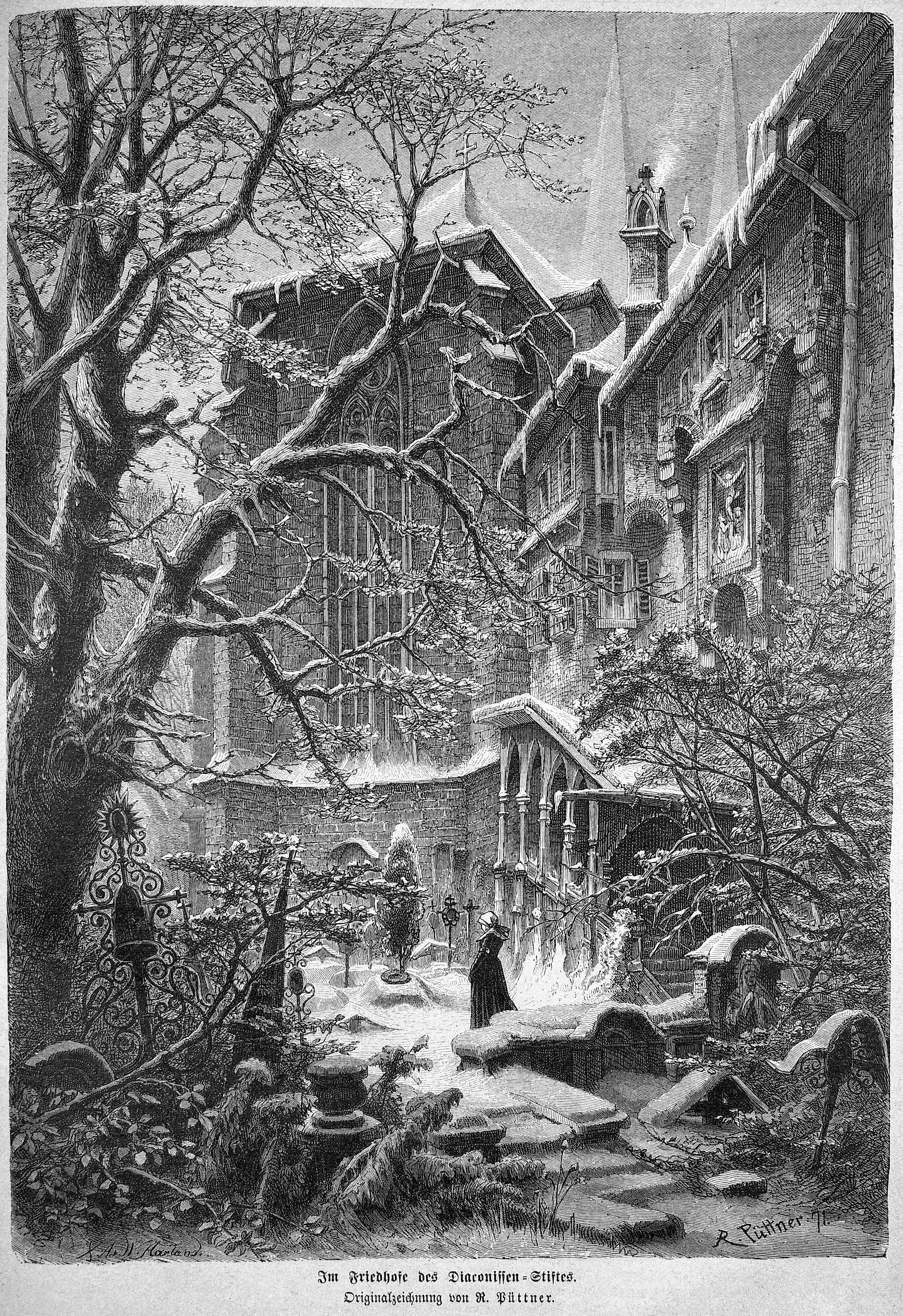 caption: "Im Friedhofe des Diaconissen-Stiftes. Originalzeichnung von R. Püttner."